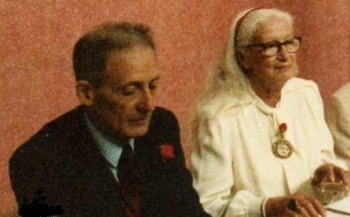 Photograph of Jean Sabbagh (left) and Jane Drew (right) at the 85th birthday celebration dinner given for Jane Drew's husband Maxwell Fry, November 1984, at Lartington Hall, Lartington, Teesdale, Co. Durham, England.